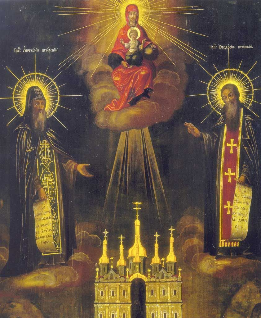 Icon of Saint Theodosius and Saint Anthony of Kyiv Caves Monastery (Lavra), together with the Most Holy Virgin.